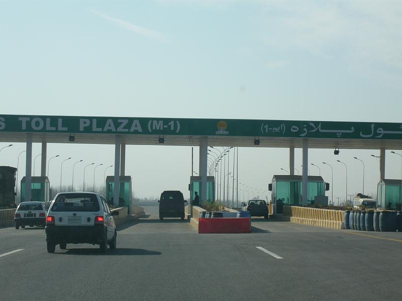 The motorway system requires a small fee to use. You get a pass when you start and have to turn in the pass when you exit. If the time difference from starting and ending is too short you could get a ticket for speeding.